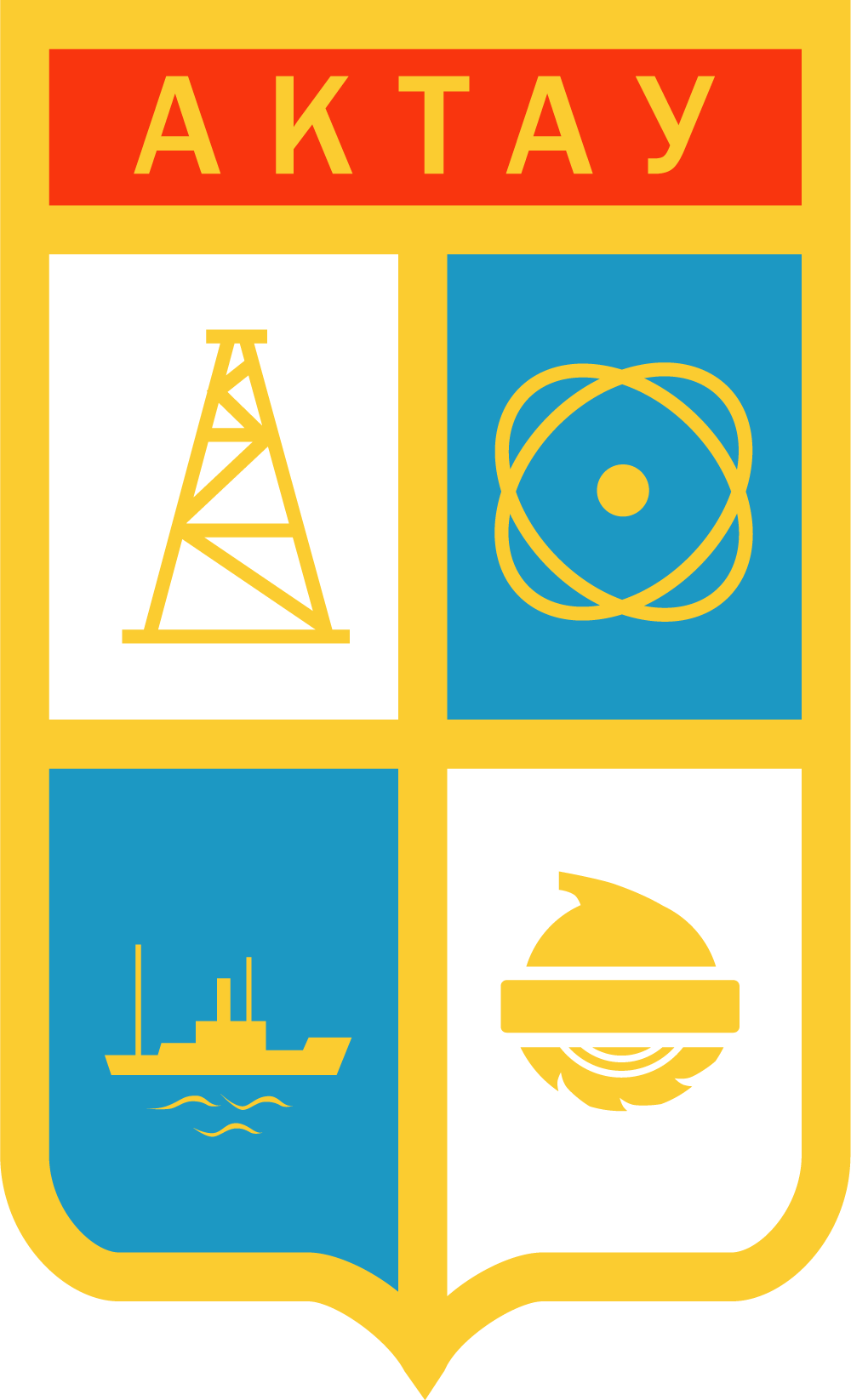 Coat of arms of Aktau